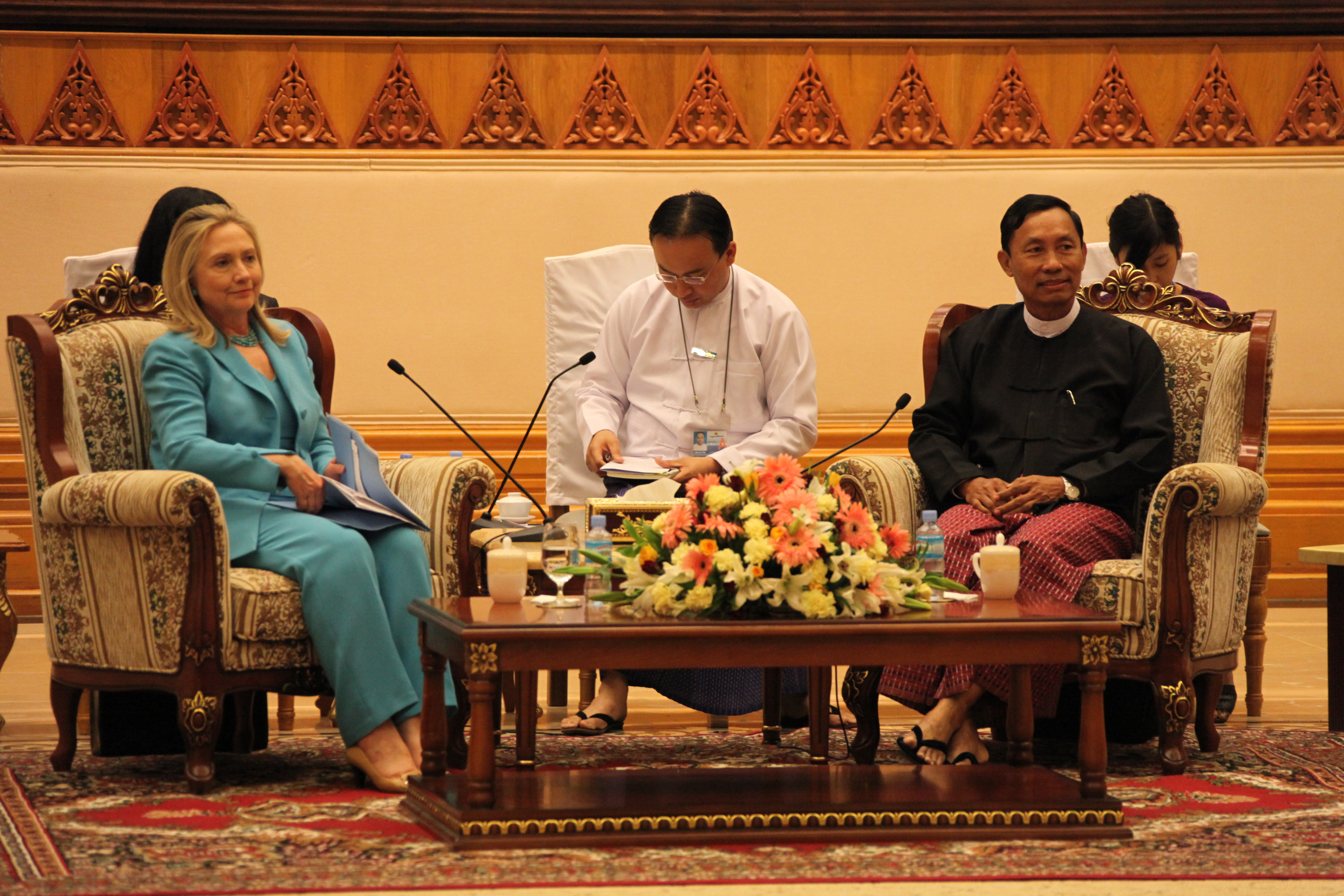 U.S. Secretary of State Hillary Rodham Clinton meets with Speaker of the Lower House of Parliament U Shwe Mann at the Burmese Parliament in Nay Pyi Taw, Burma, on December 1, 2011.